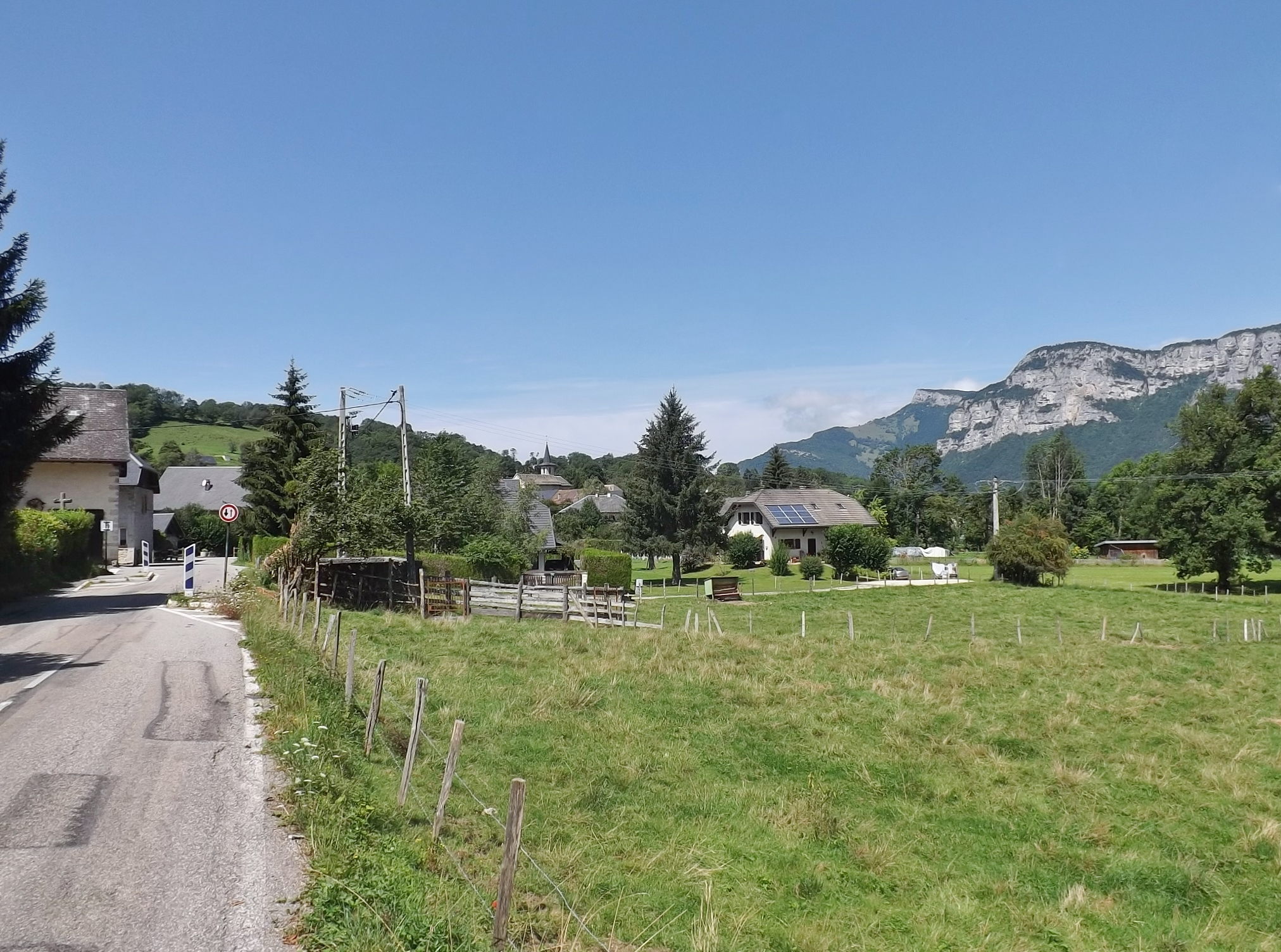 Sight of the French village of Curienne, in the Bauges mountains, on the heights of Chambéry in Savoie.